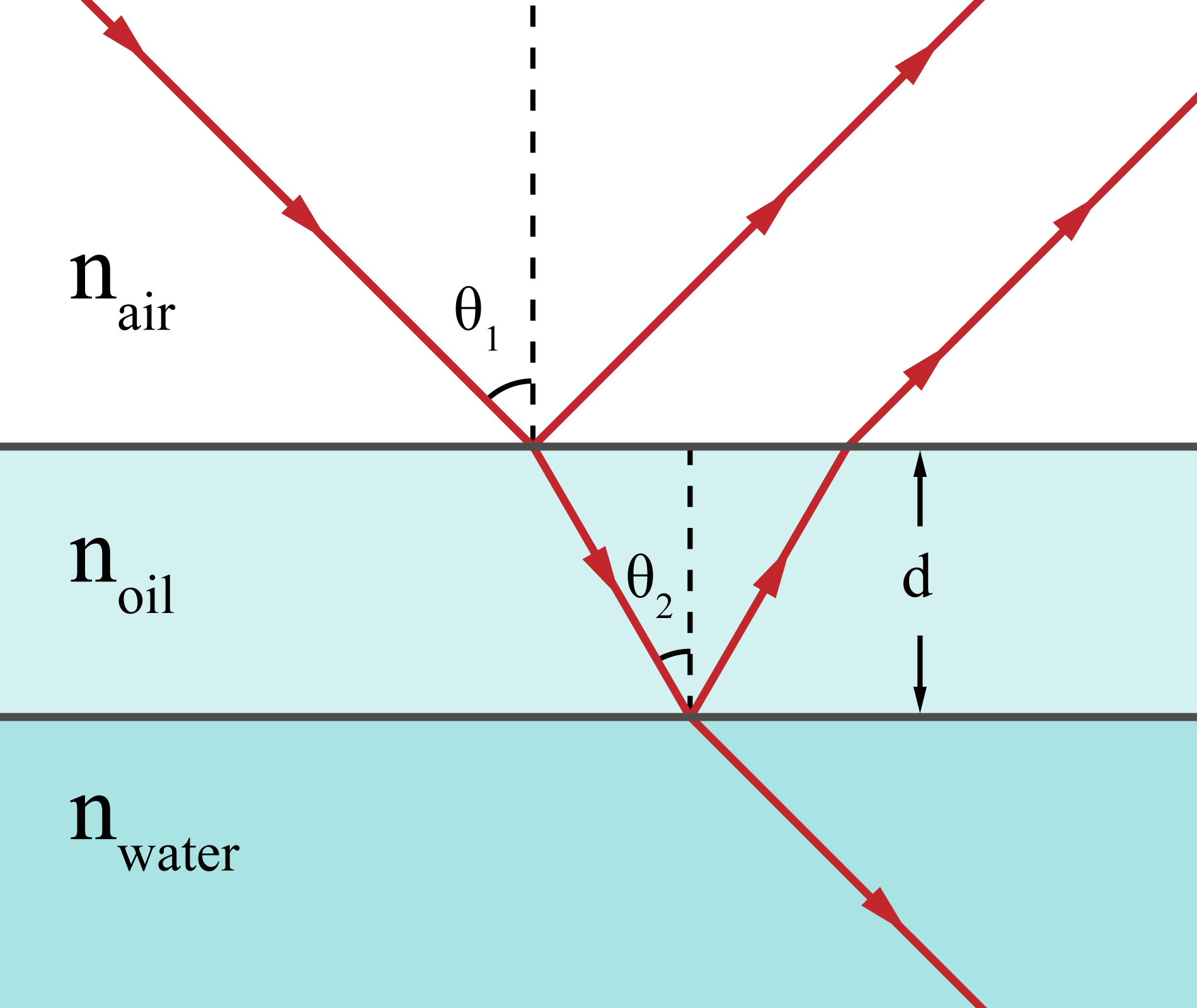 A wave of light reflecting off the upper and lower boundaries of an oil film on water. The reflected waves interfere with one another.